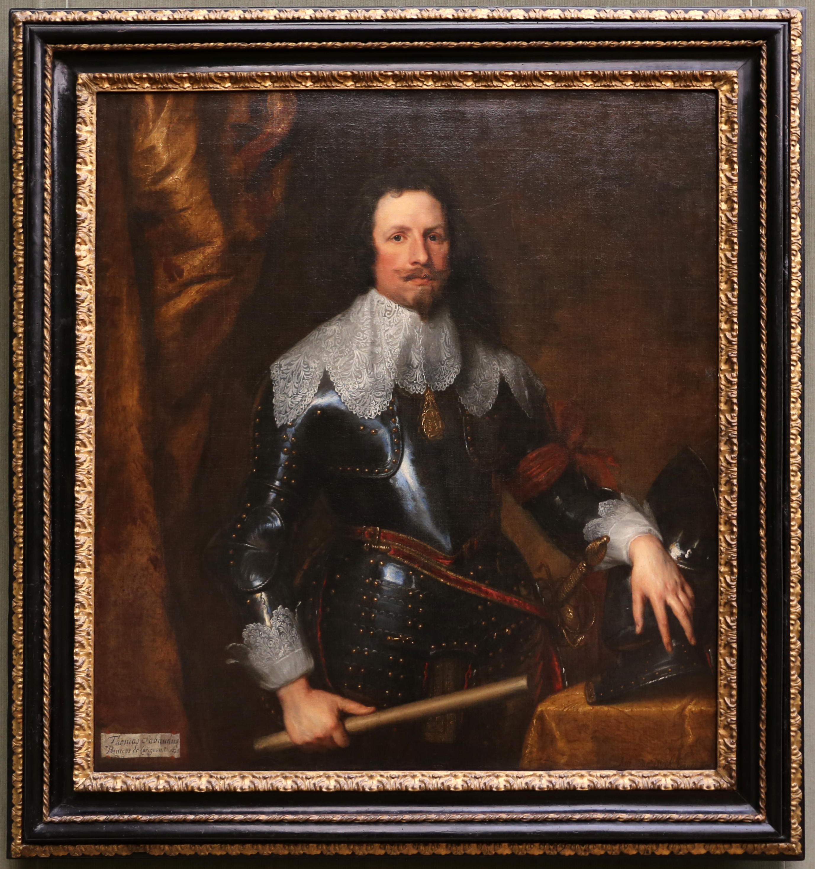 Flemish paintings in the Gemäldegalerie, Berlin